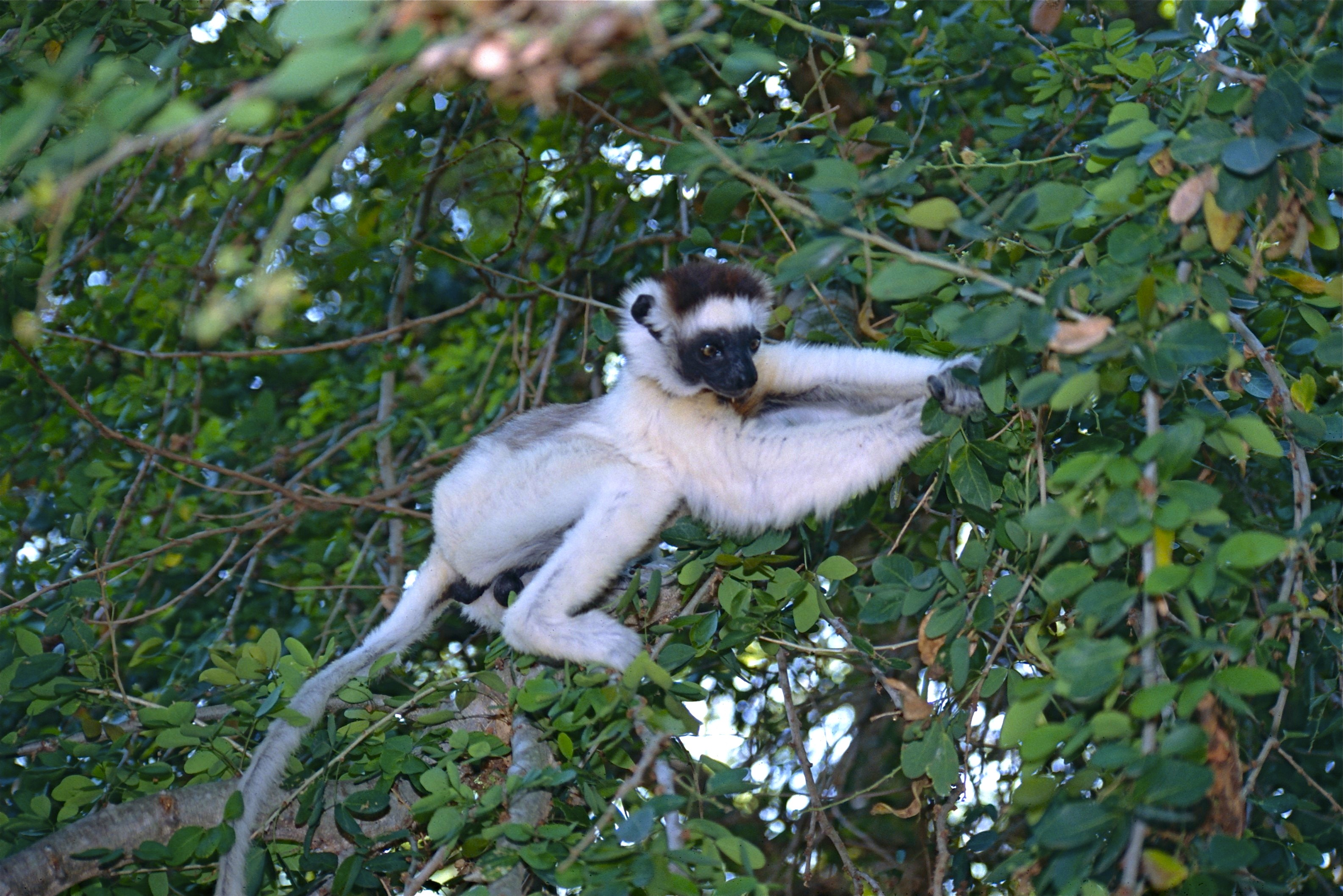 Réserve de Berenty, Amboasary Sud, MADAGASCAR Scanned Slide from 1998